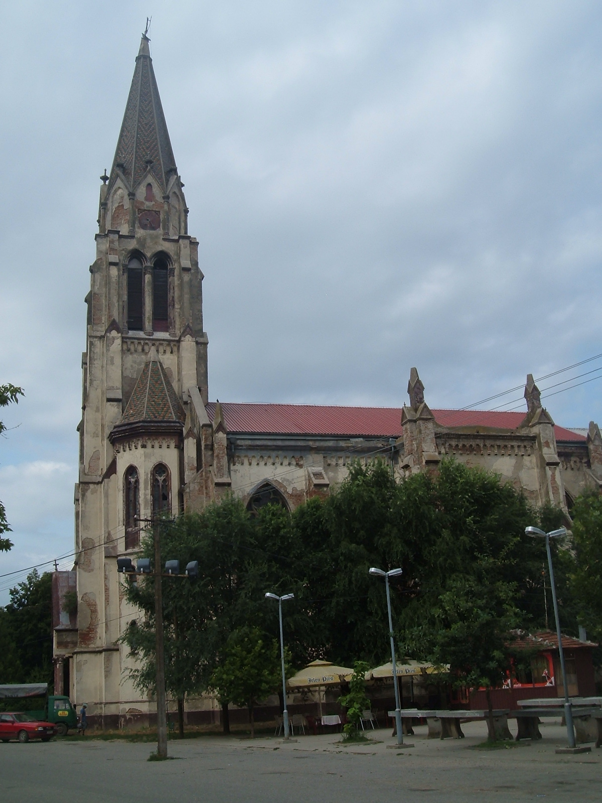 Jaša Tomić town, Serbia, Catholic Church.